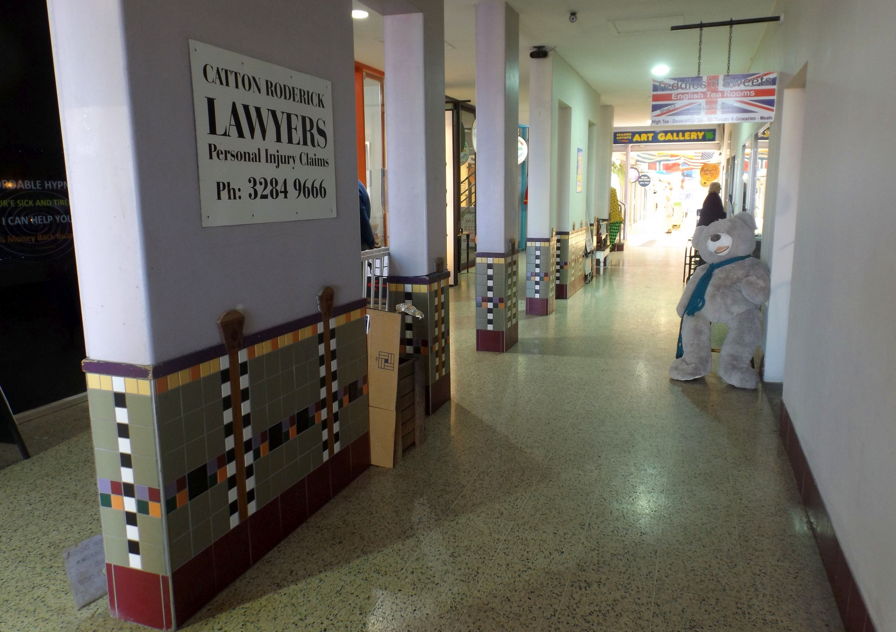 Photo of columns at Comino's Arcade rear extension at Redcliffe, Moreton Bay, Queensland, Australia.